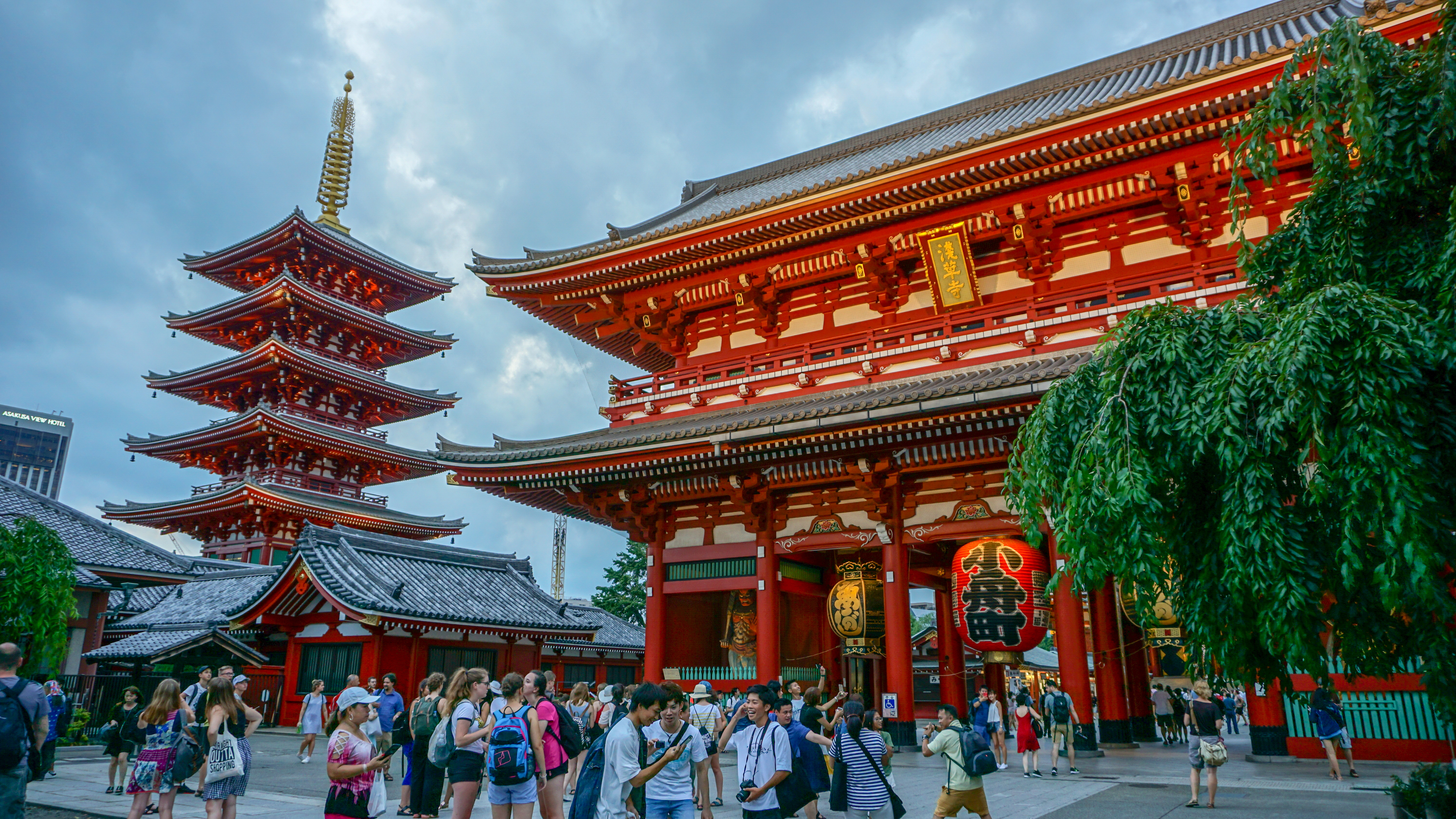 花鳥風月 | Sensō-ji Temple